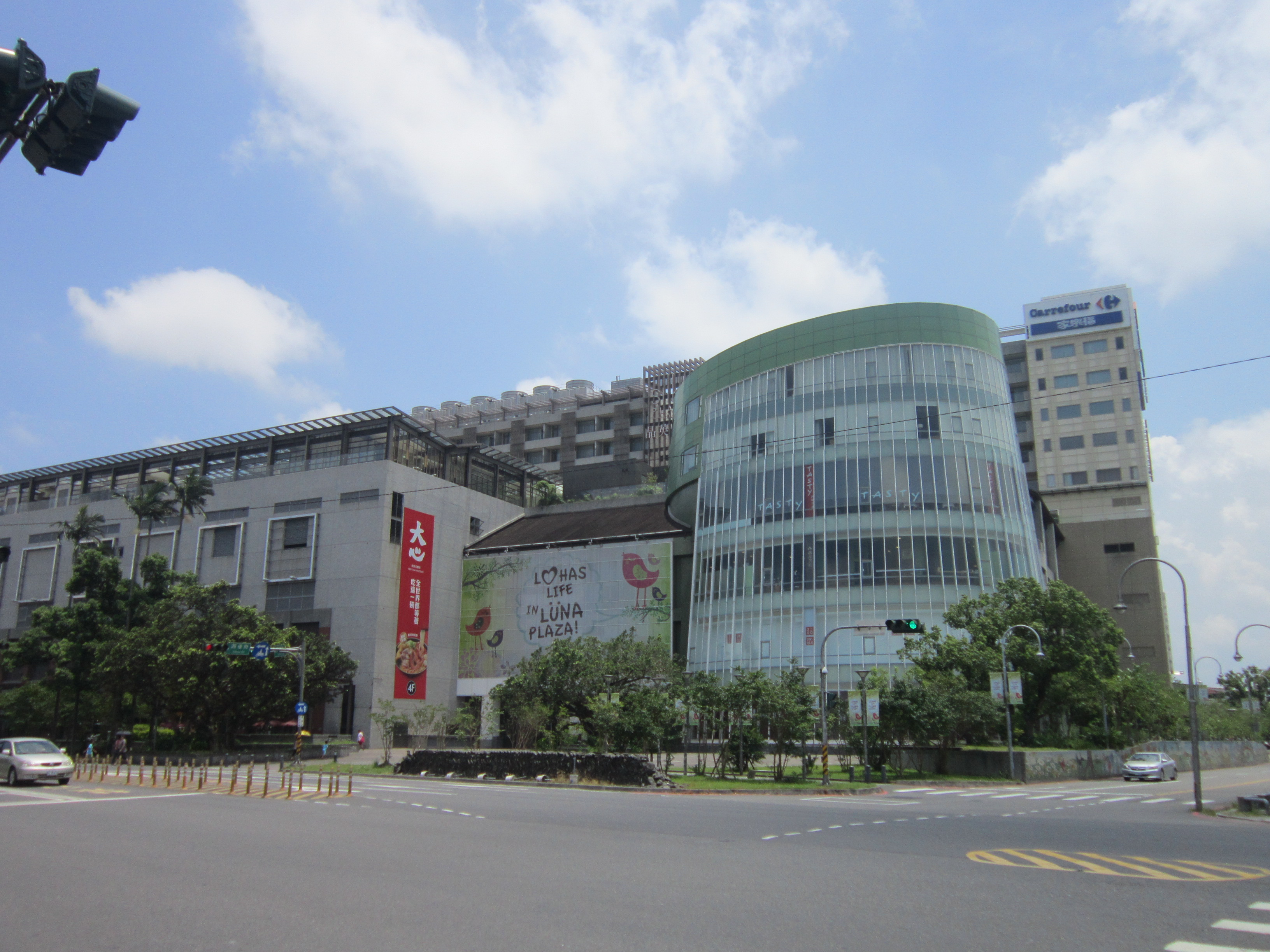 Lunaplaza